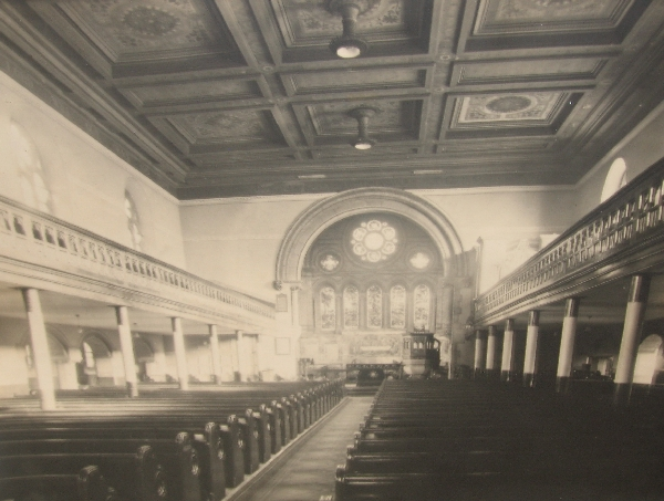 Holy Trinity Church Leicester, photo from 19th Century (original source unknown). Digital photo taken of photo by Paul Parkinson 31-Dec-2006.